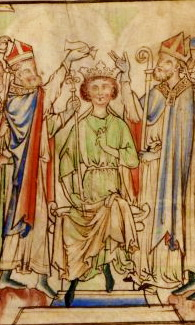 Coronation of Edward the Confessor as King of England. (Cambridge University Library, Ee.3.59, fo. 9r)